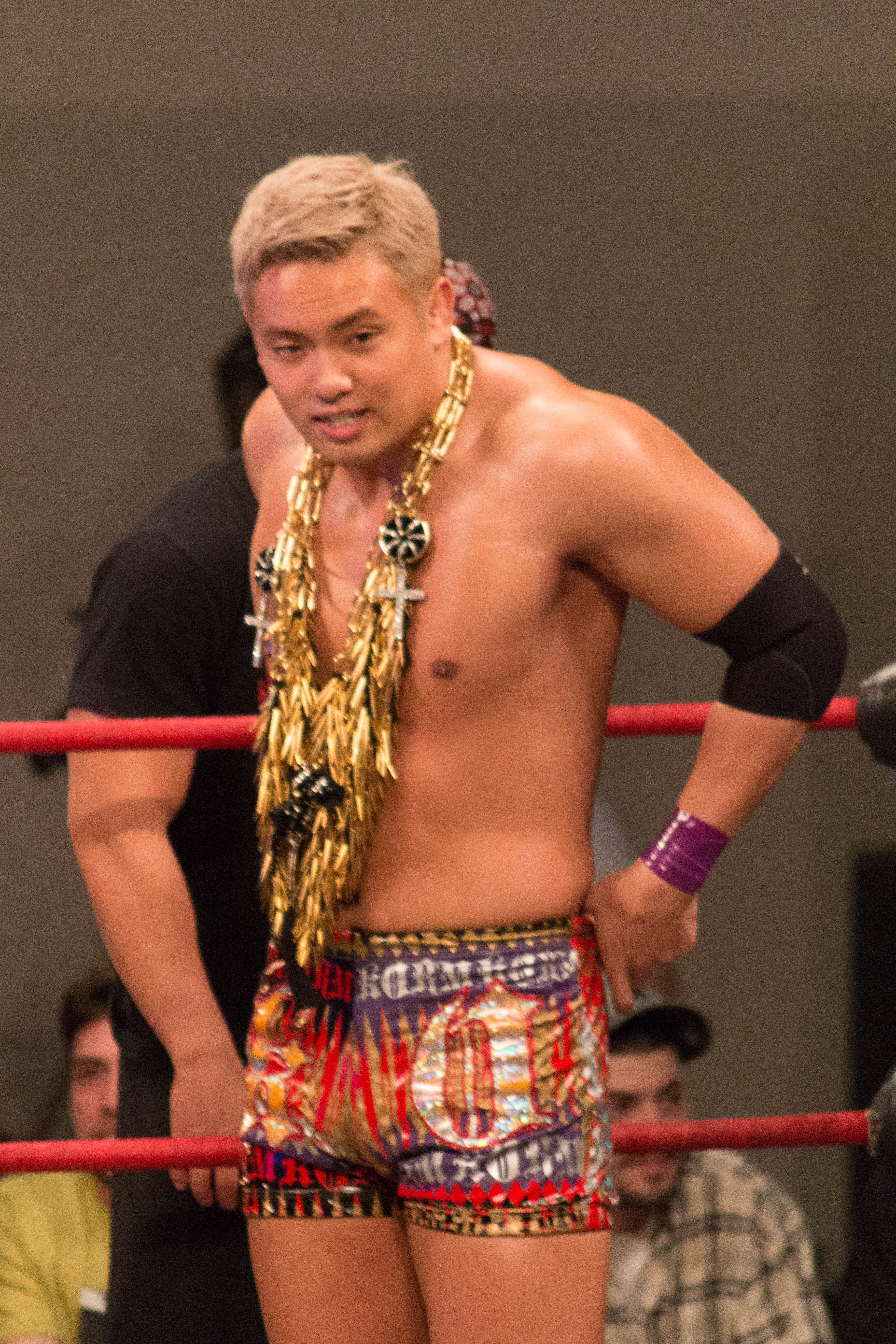 Kazuchika Okada making his ring entrance at Border City Wrestling's East Meets West show at St. Clair College in Windsor.